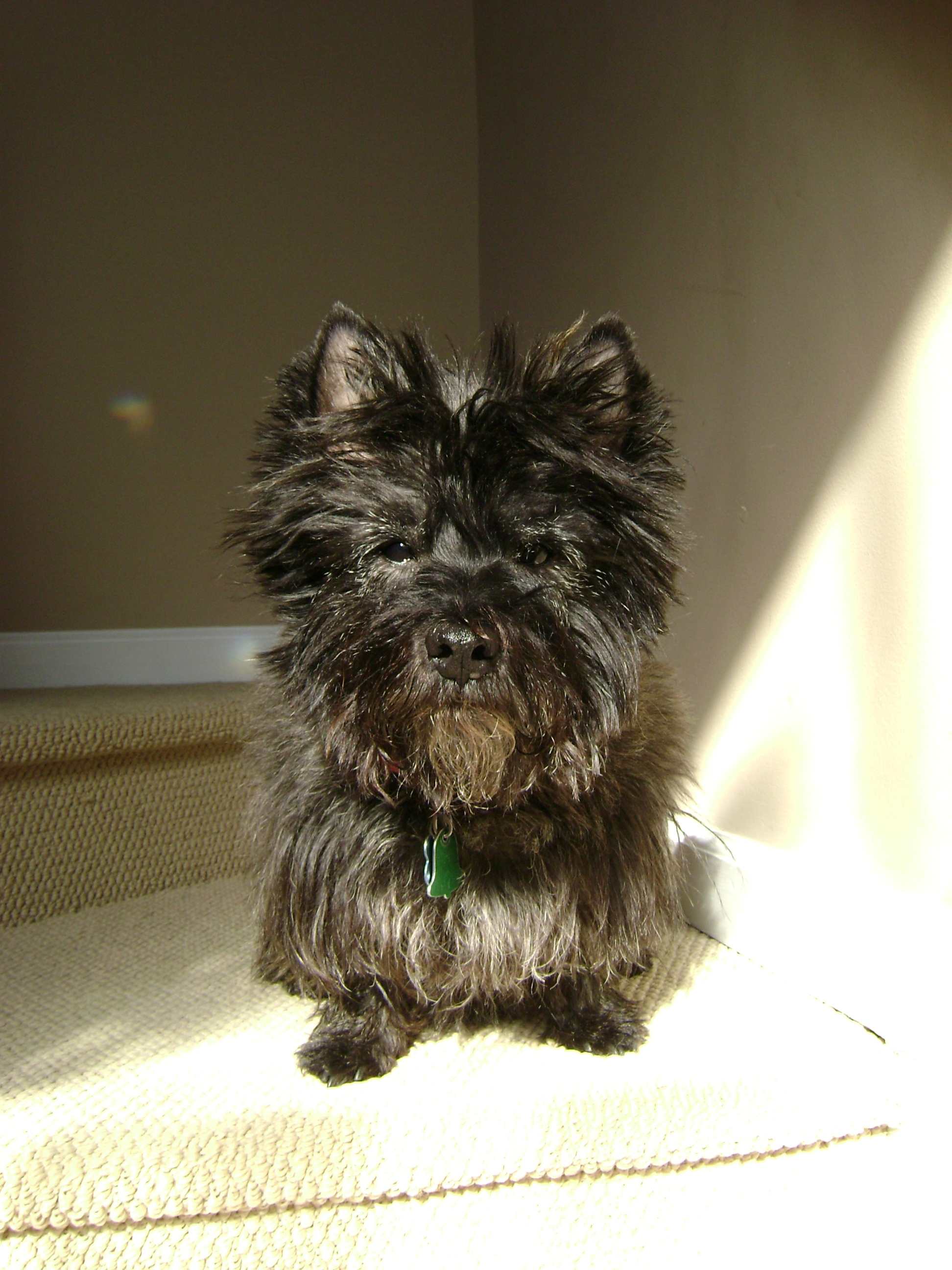 Cairn Terrier